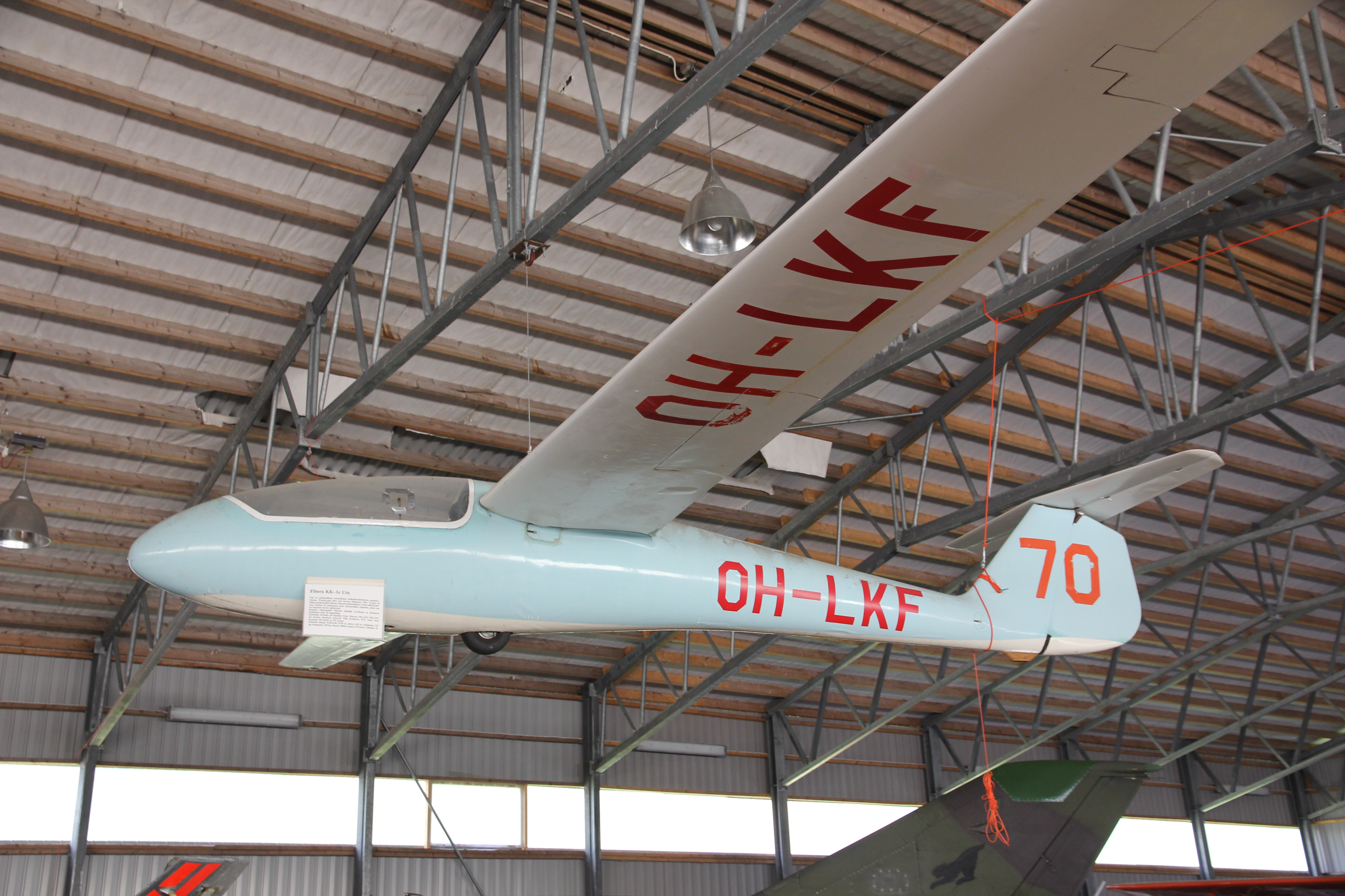 Fibera KK-1e Utu glider photographed in Karhulan ilmailukerho aviation museum.